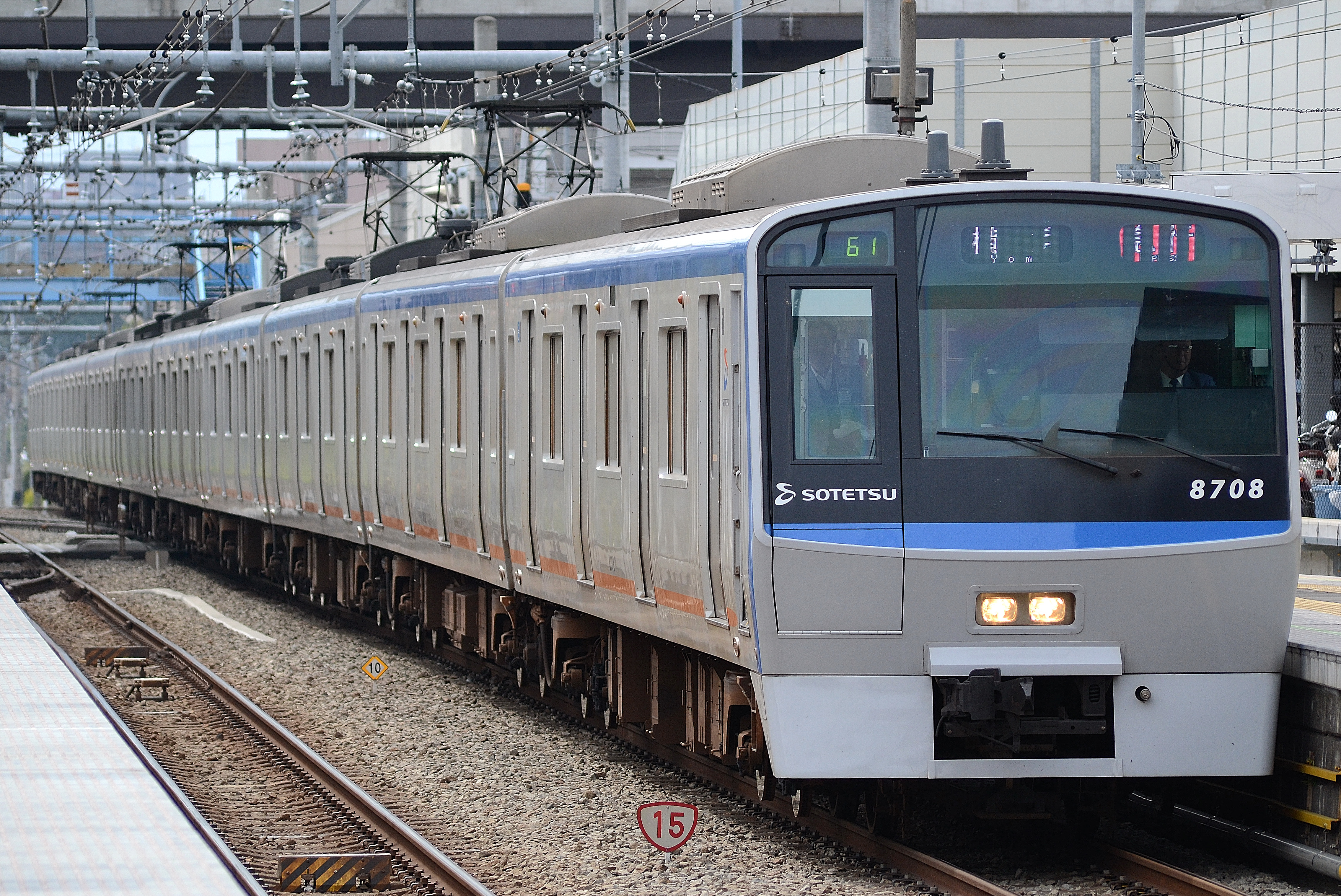 Sagami Railway 8000 series EMU set 8708